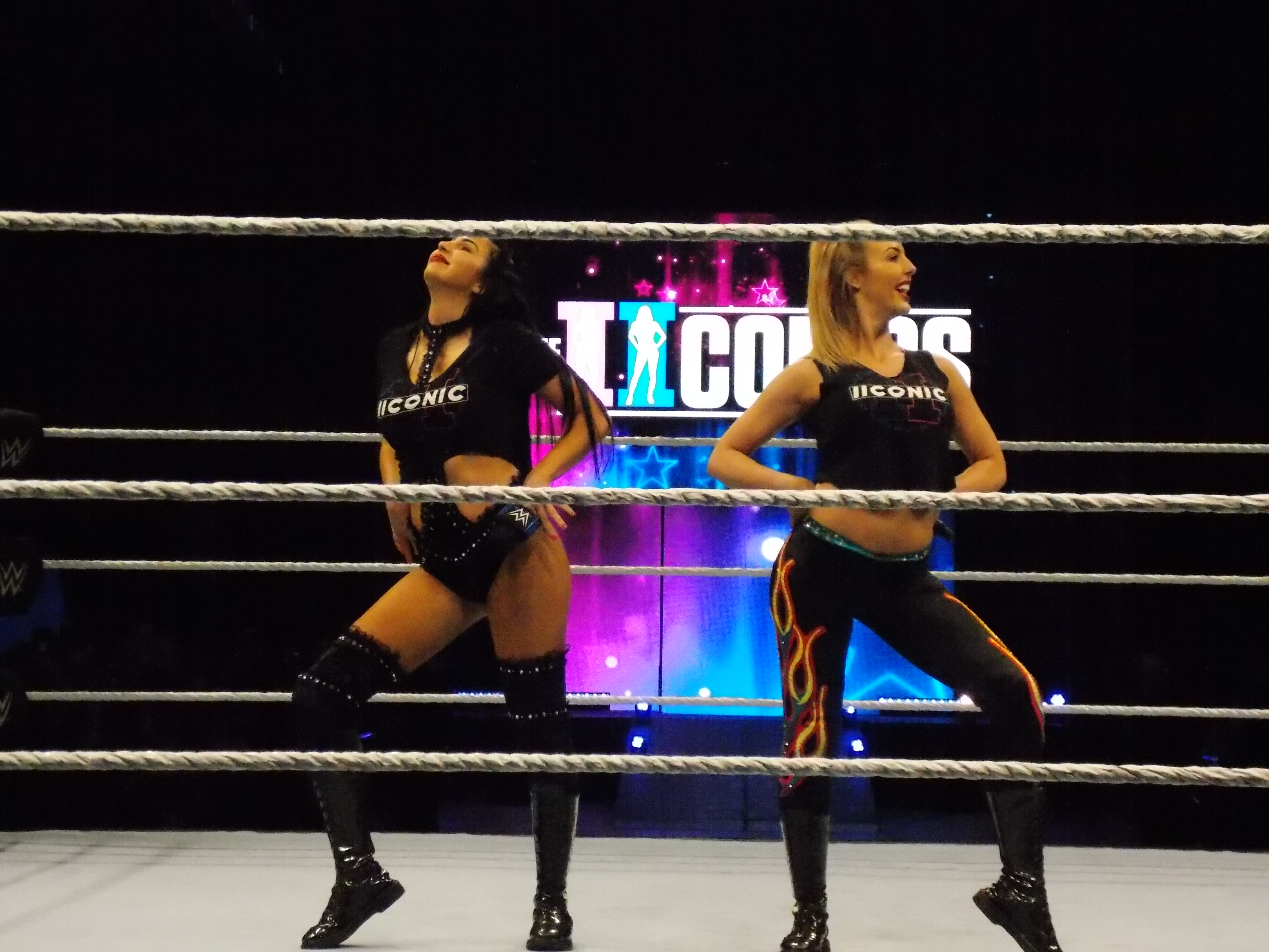 The IIconics, Billie Kay and Peyton Royce, at a WWE Live Event House Show in Omaha, Nebraska, USA on Sunday, August 18, 2019